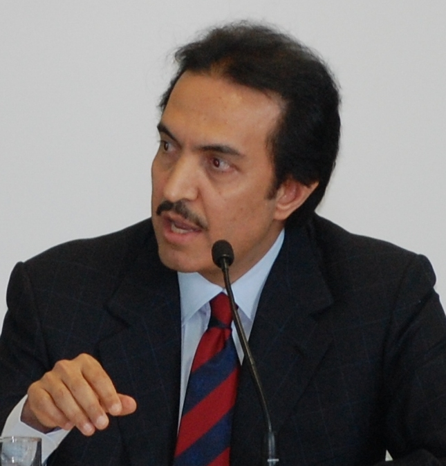 This is a picture of Nayef Al-Rodhan to illustrate the article about him. This picture was taken in Geneva during a pannel organized he was participating in.